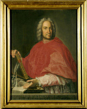 Cardinal Conrelio Bentivoglio